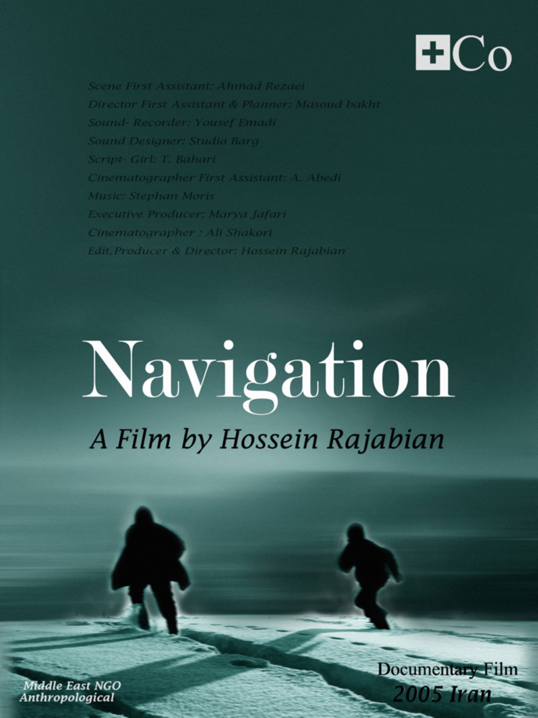 Navigation a film by hossein rajabian طی فیلم حسین رجبیان